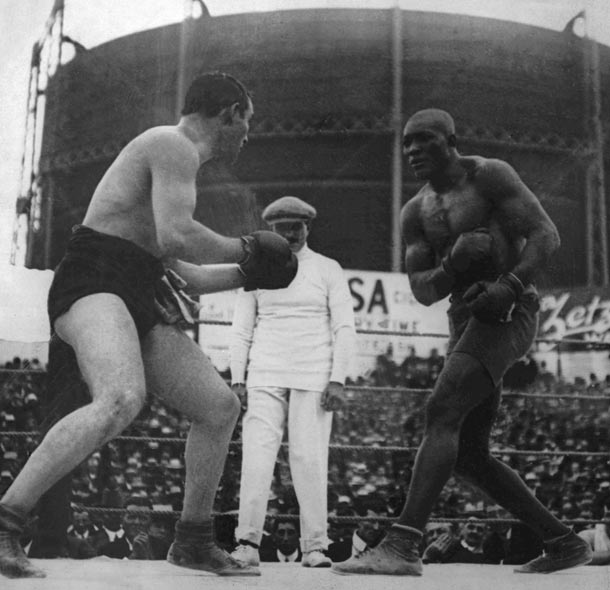 World heavyweight champion, Tommy Burns (left), and challenger Jack Johnson (right), during their championship fight on December 26, 1908